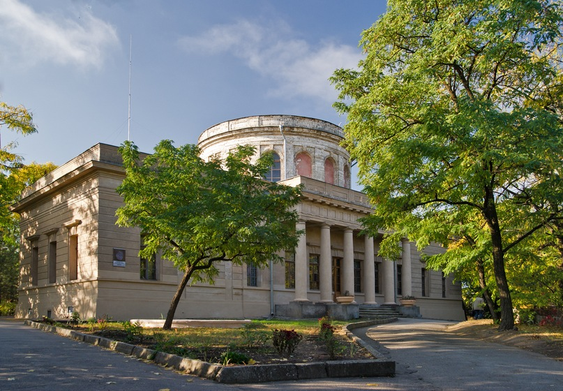 Mykolaiiv Astronomical Observatory